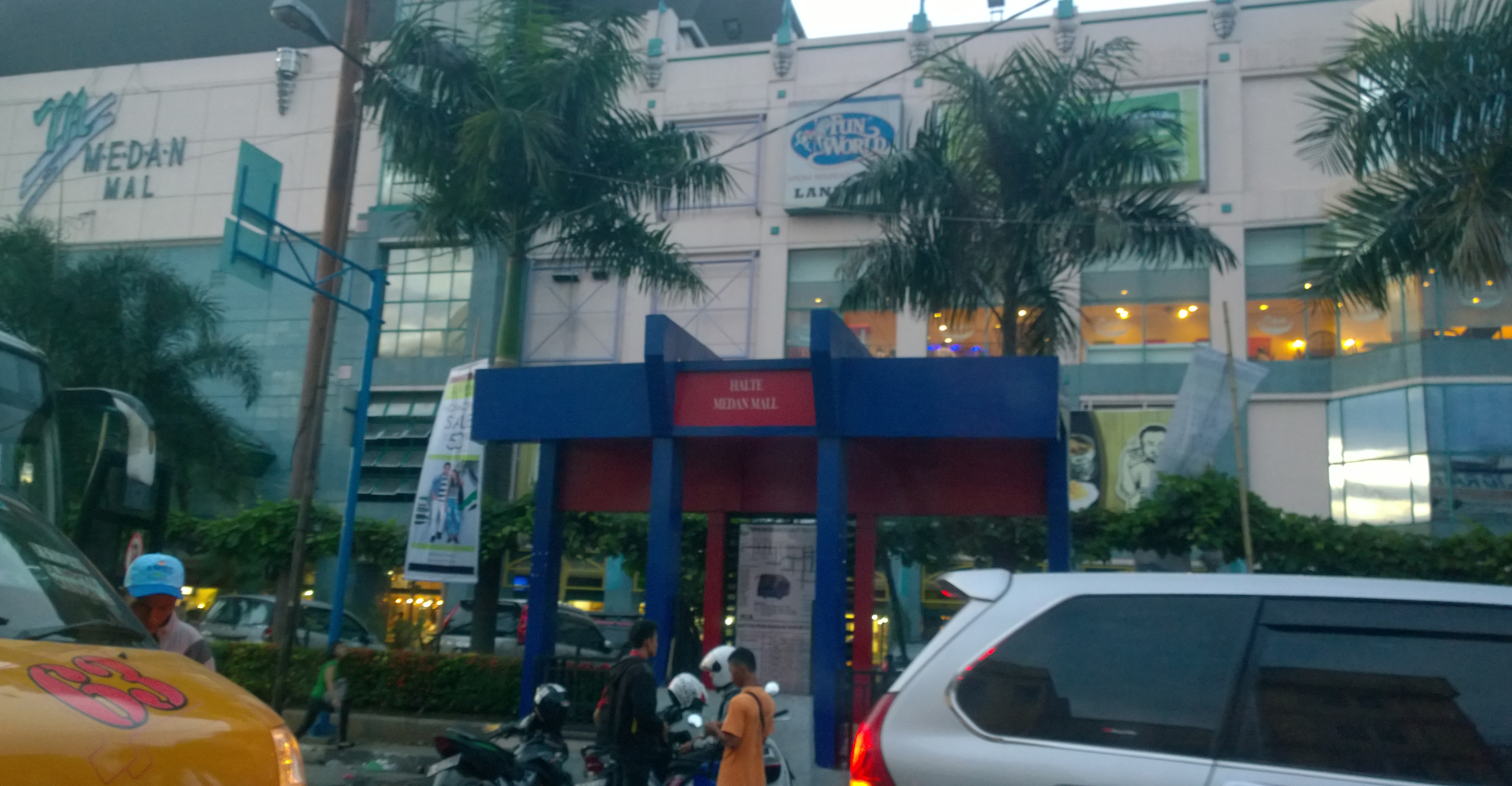 Bus stop of Trans Mebidang bus rapid transit, located in front of Medan Mall